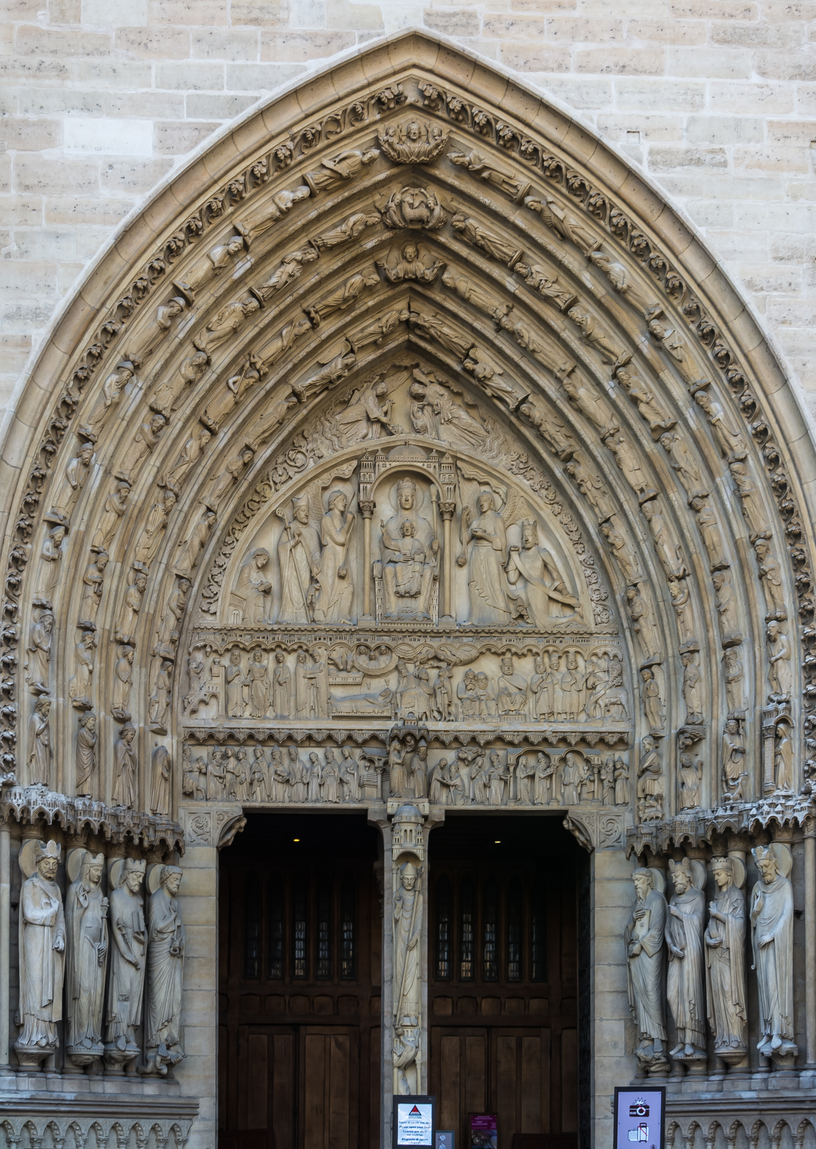 Portal of St. Anne (Portail Sainte Anne) of cathedral Notre-Dame de Paris, France